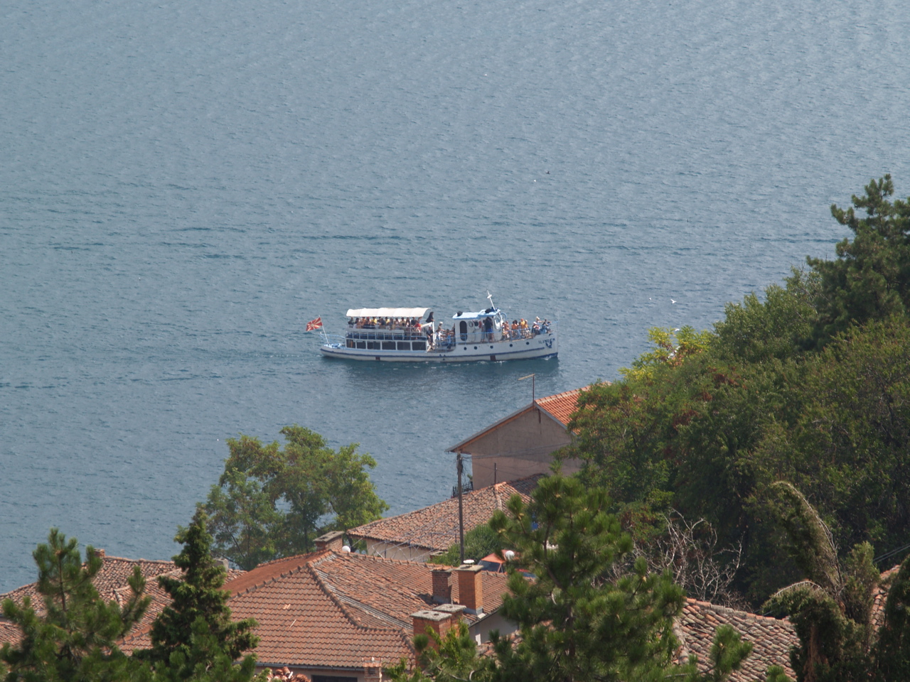 ship named "Ilinden" sunk on September 5, 2009, taking 15 victims of Bulgarian tourists who traveled aboard.